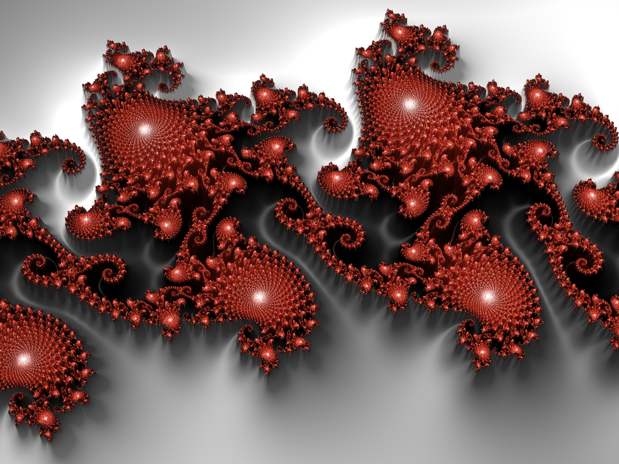 This is my attempt to reproduce the image "Map 44" from the book "The Beauty of Fractals" in 3D, using a color scheme as similar to the original as I could manage. The image is centered at roughly -0.745295, 0.113058i at a plot width of about 0.000484 (The 3D image is a crop of a larger image, so those values are approximate)